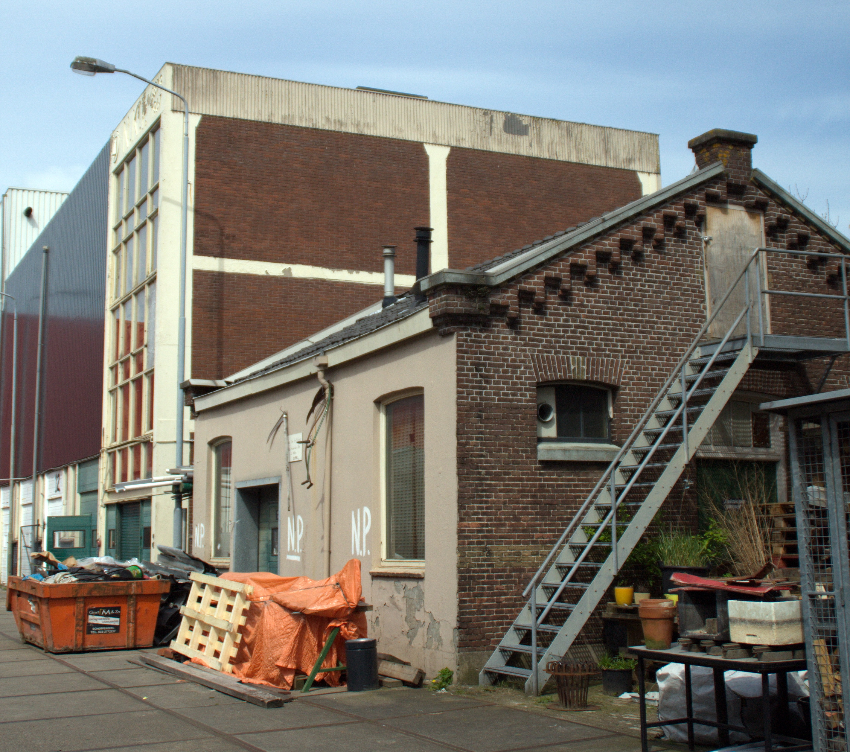 former match factory Warner Jenkinson in Amersfoort. The Netherlands